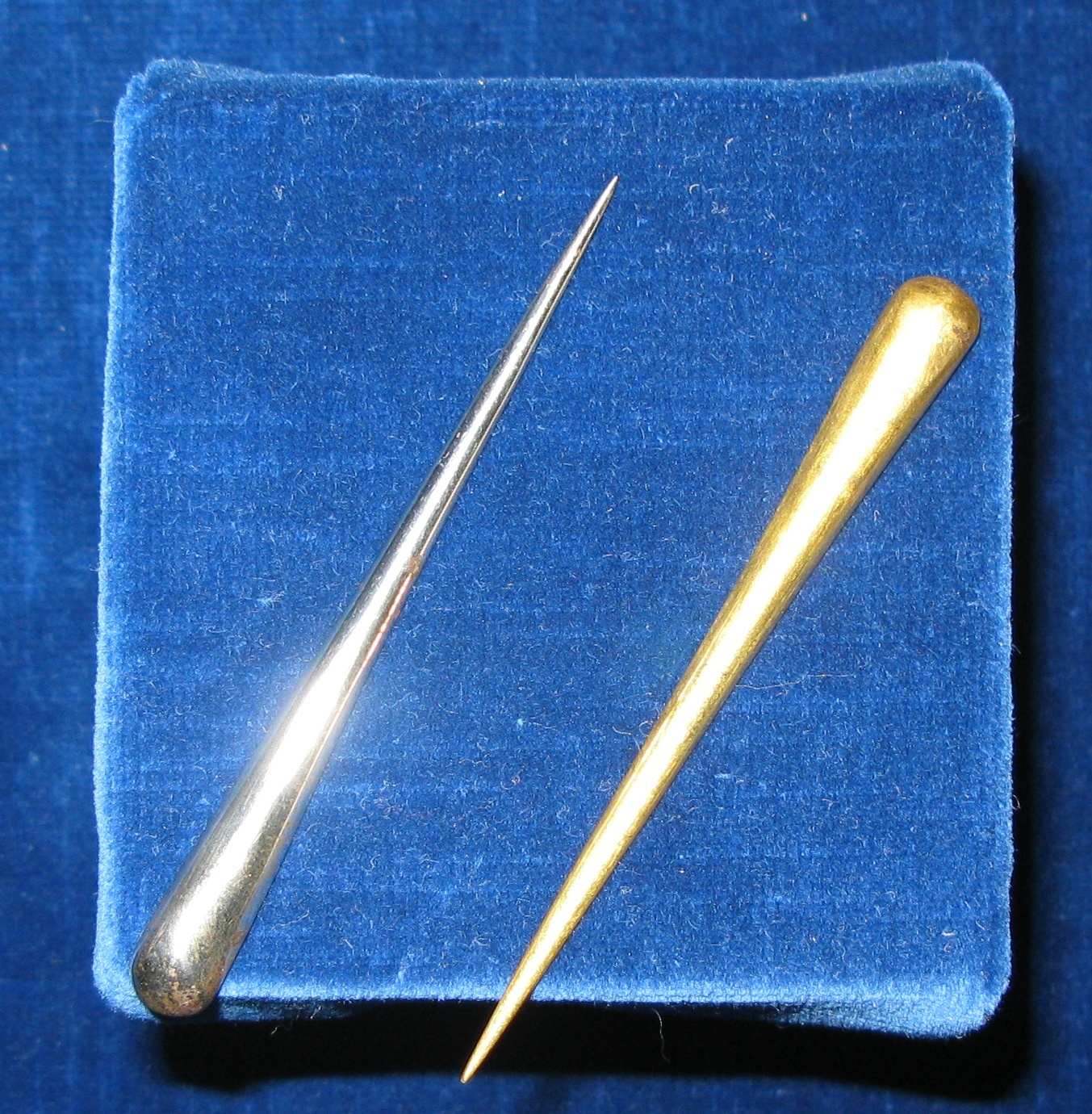 Photo of modern coppies of Perkins tractors in the science museum